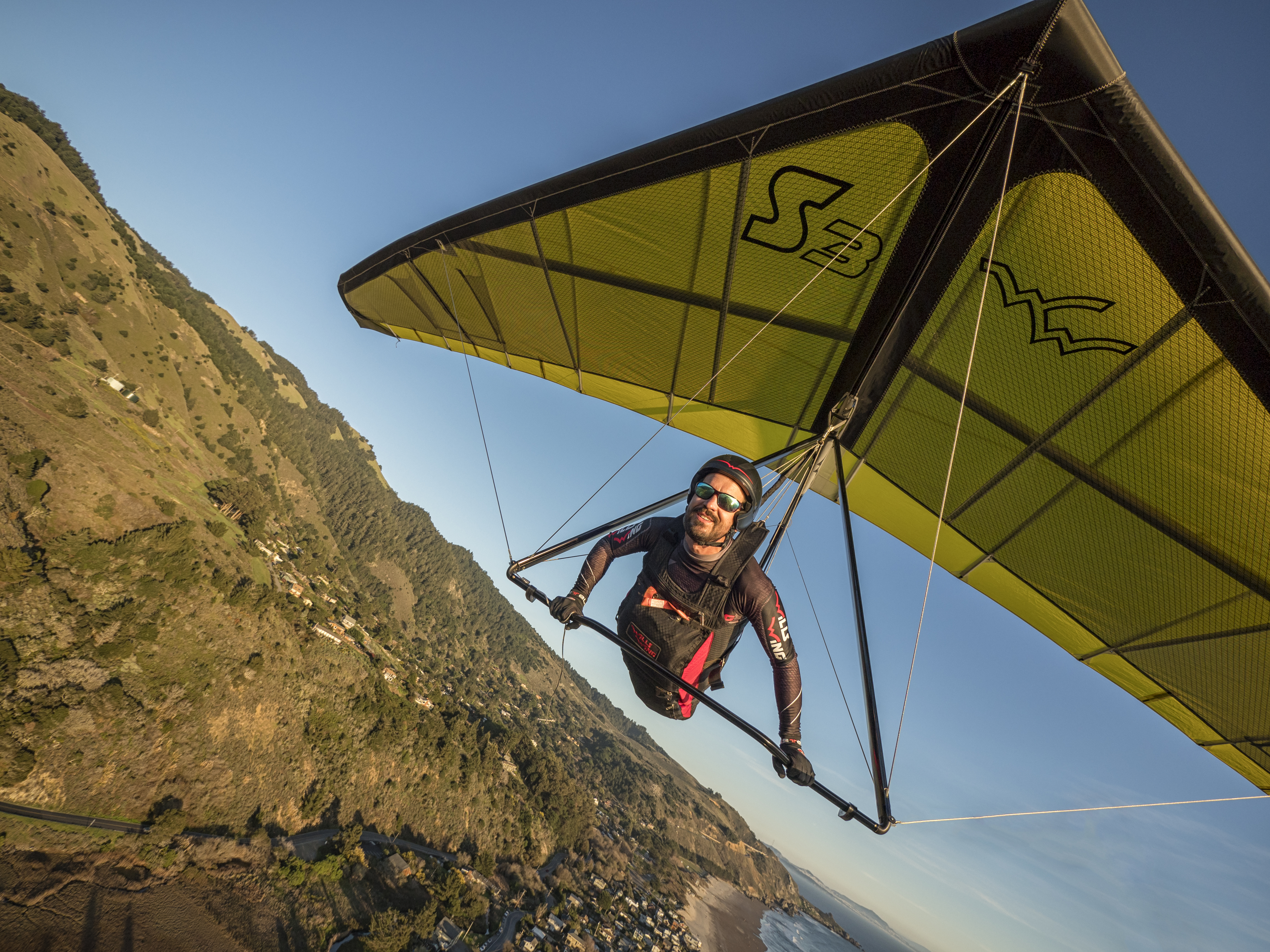 Dave Aldrich flies the Wills Wing Sport 3 over Mount Tamalpais in California